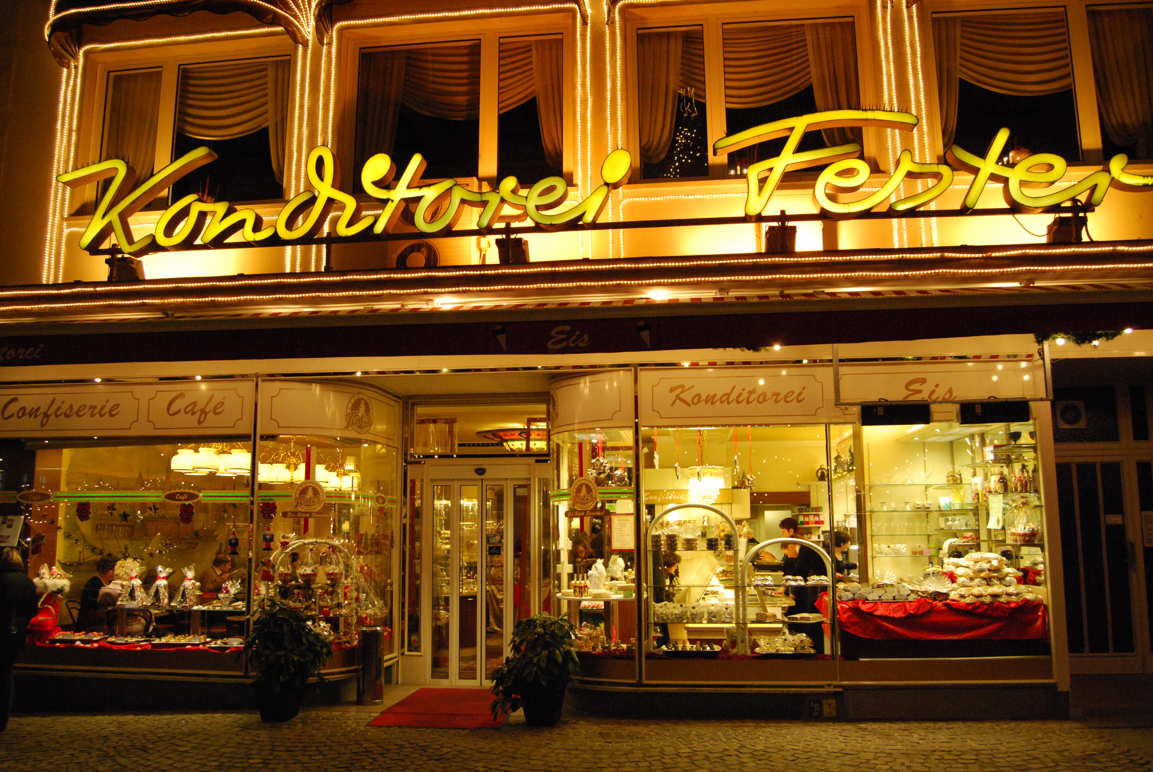 Konditorei Fester Spandau, Berlin, Germany